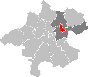 The map shows the Districts (politische Bezirke) Linz (red, rot) and his neighbour-districts (dark grey, dunkelgrau).